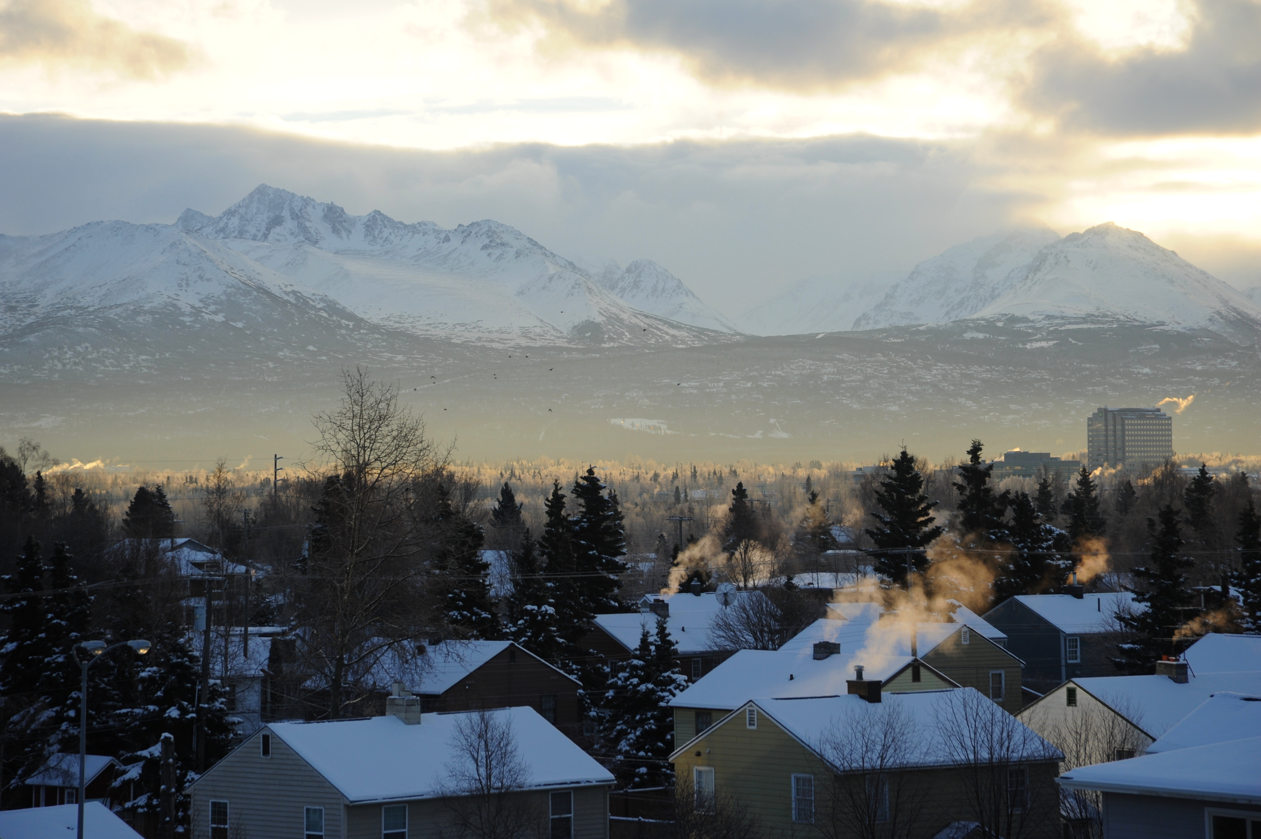 Photographer's title: Chugach Foothills under snow, glow, saltbox houses, forest, smoke rising, cloudy sky, Anchorage, Alaska, USA